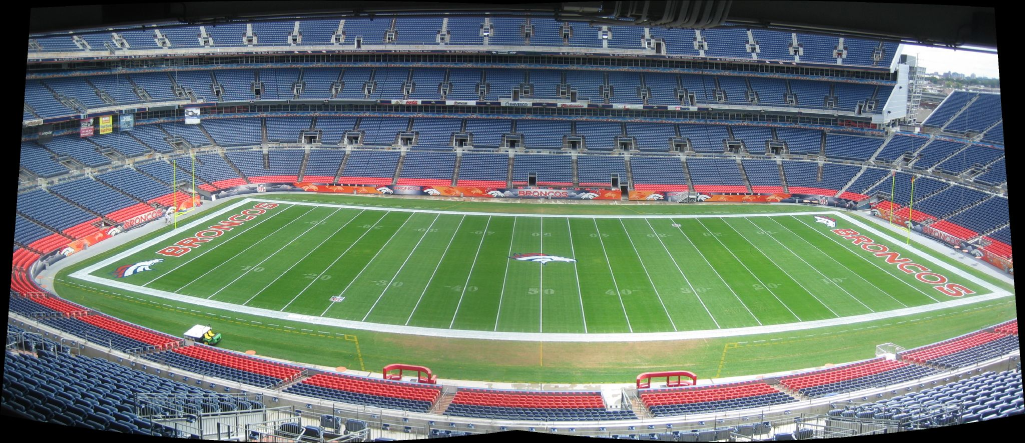 Denver, Colorado, Invesco Field at Mile High